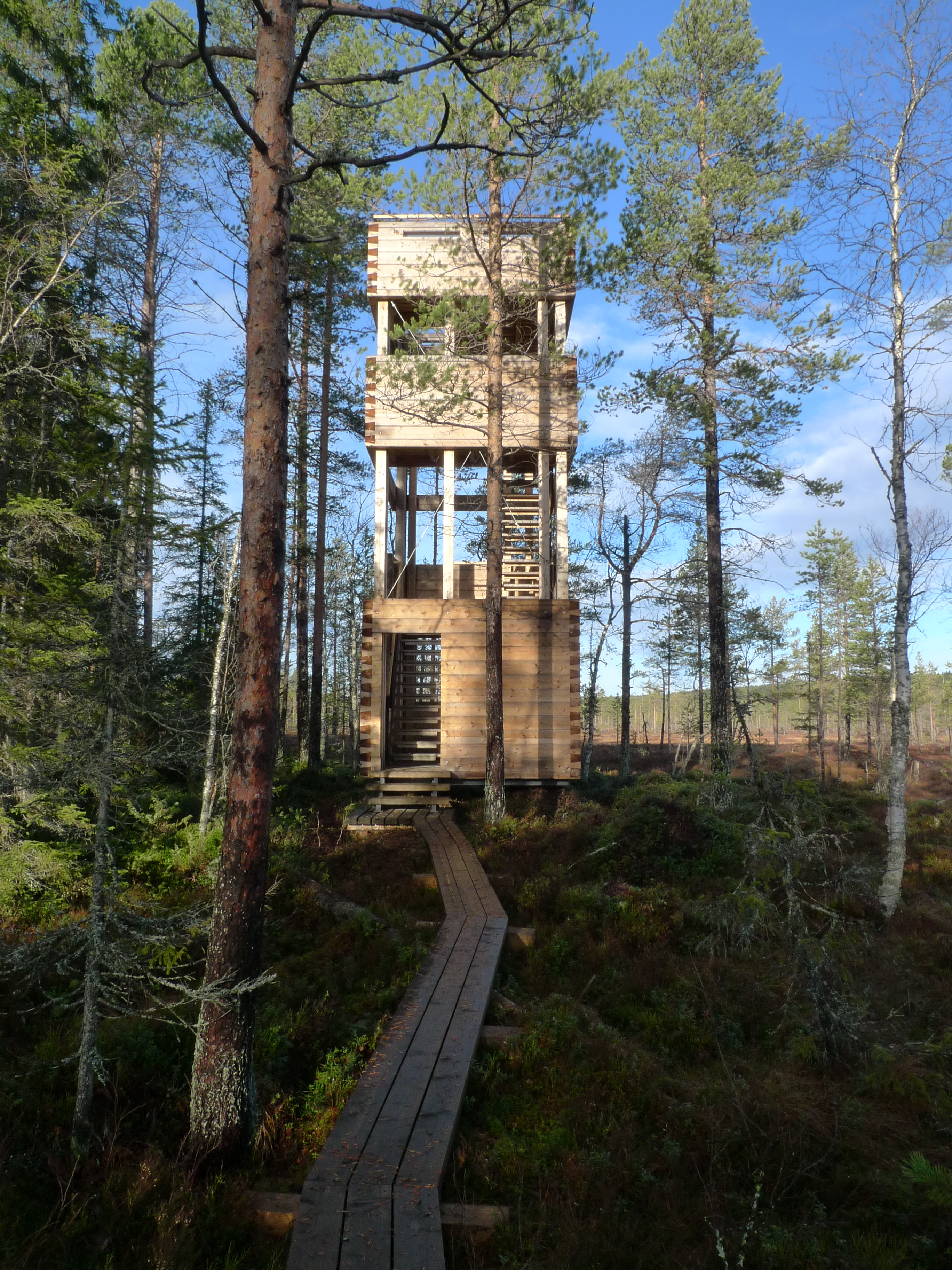 Observation tower, close to myrentrén ("bog entrance") of Hamra nationalpark